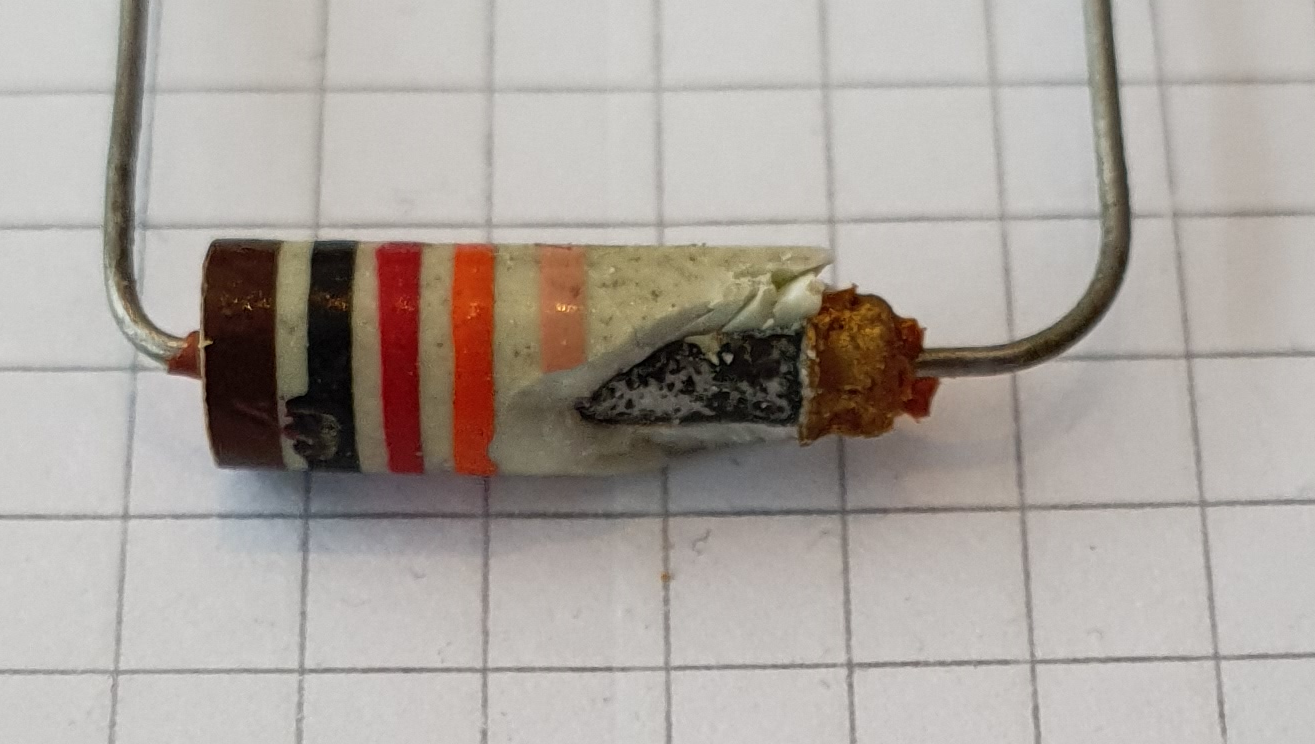 Carbon composition resistor, ceramic covered, with cracked ceramics